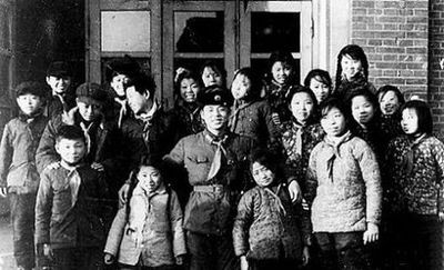 Lei Feng (18 December 1940 – 15 August 1962) was a soldier of the People's Liberation Army of China.